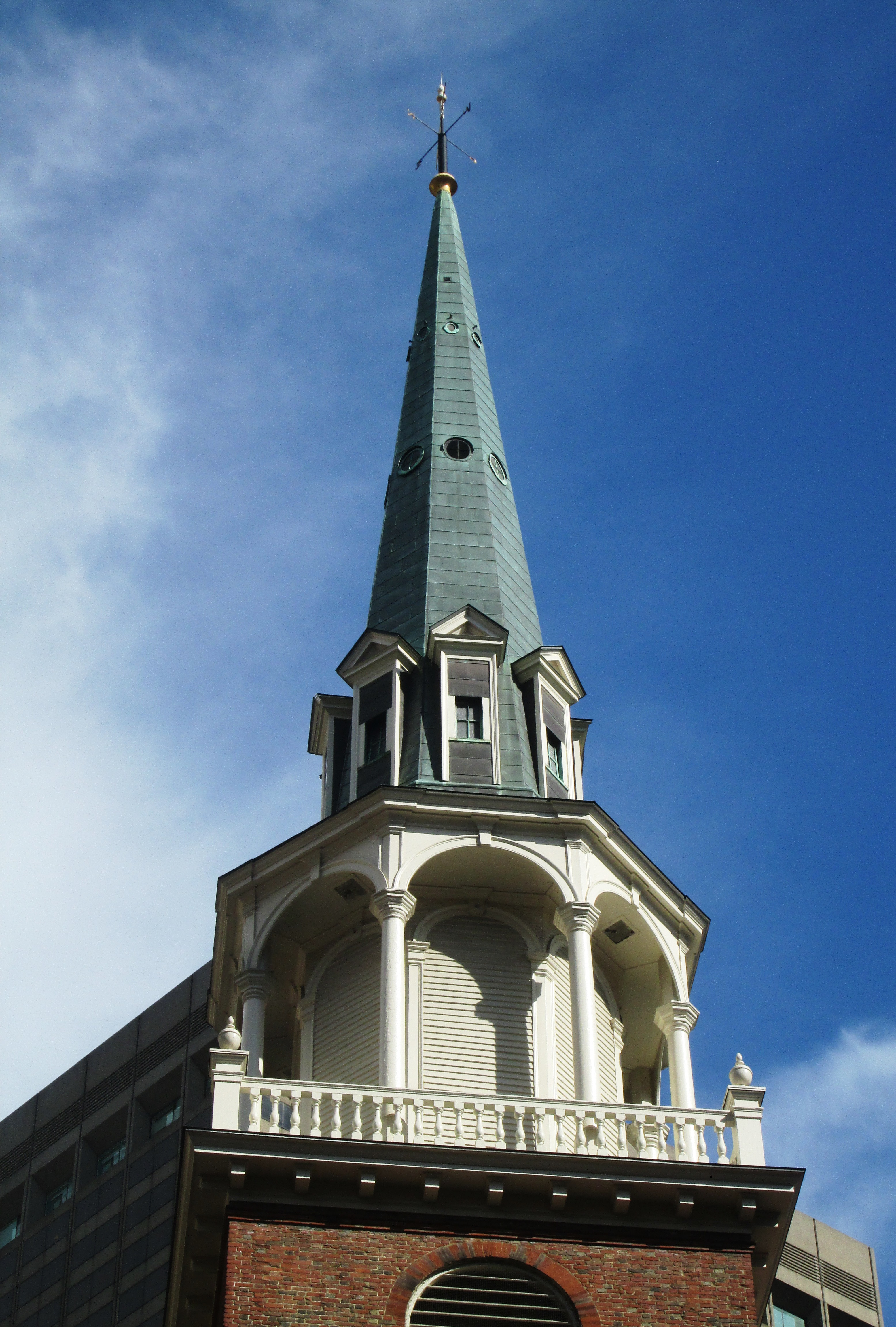 The Old South Meeting House, located at the corner of Washington and Milk Streets in the Downtown Crossing area of Boston, Massachusetts, was built in 1729 in the Georgian style by Robert Twelves. It gained fame as the organizing point for the Boston Tea Party on December 16, 1773. Five thousand or more colonists gathered at the Meeting House, the largest building in Boston at the time. It is a Congregational church and was designated a National Historic Landmark in 1960.